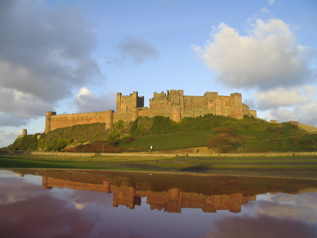 Bamburgh Castle Taken from the car park